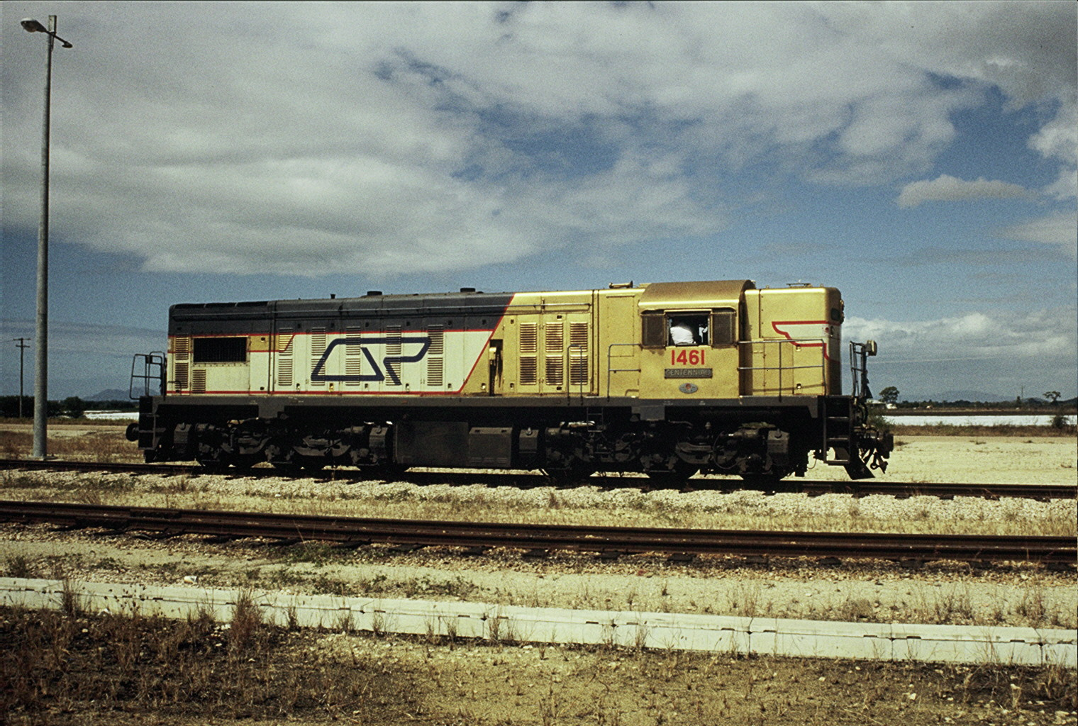 1461 in the special 'Centenary of Queensland Railways' paint scheme it wore from introduction in 1965 until withdrawn